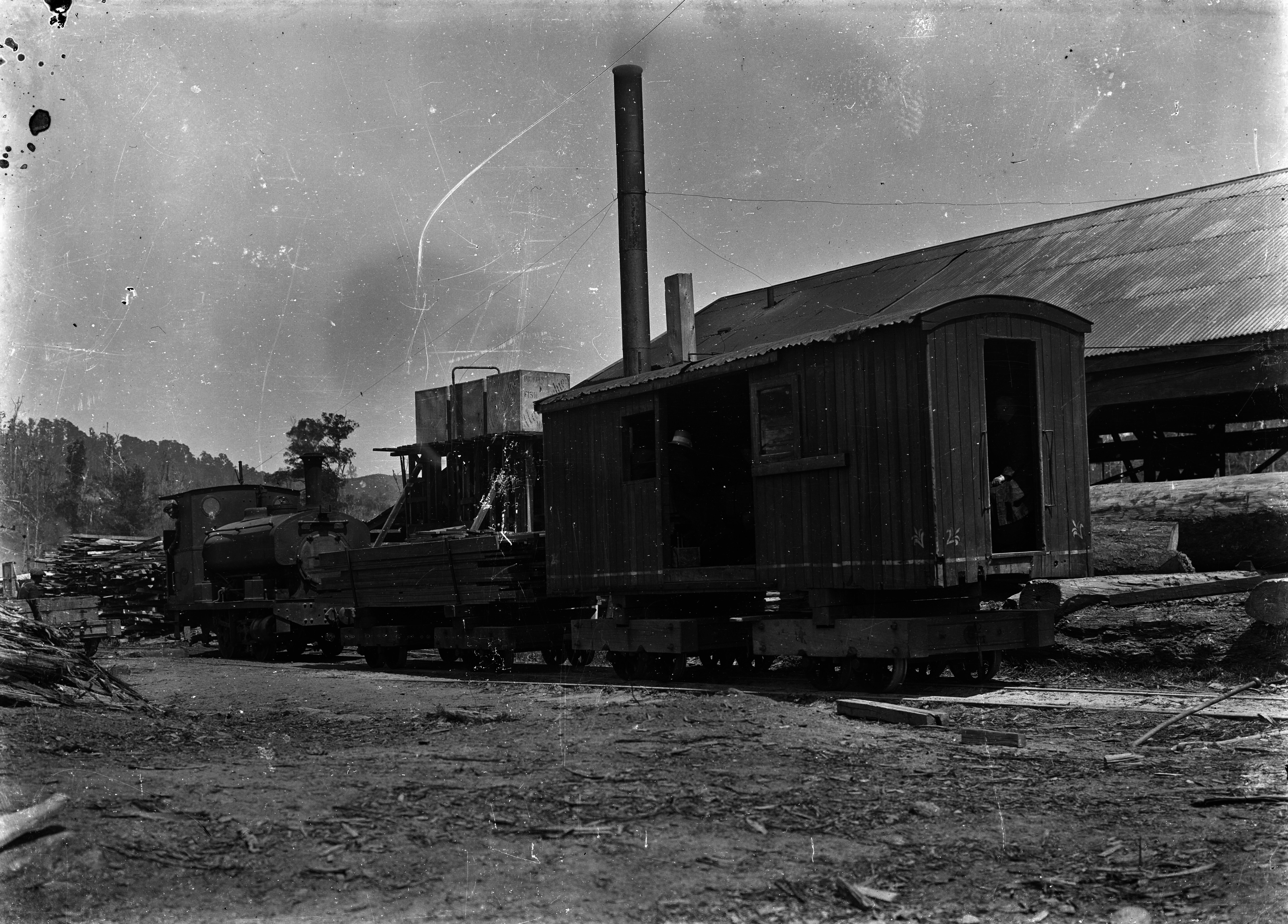 The Taringamotu Express at Oruaiwi with a load of sawn timber, stopped at a timber mill. Photographed by Albert Percy Godber.